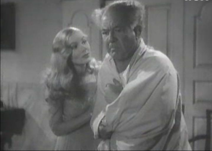 Screenshot of Cecil Kellaway and Veronica Lake from the trailer for the film I Married a Witch